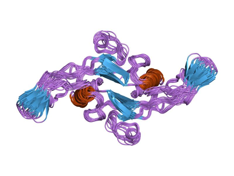 Cartoon representation of the molecular structure of protein registered with 1kld code.